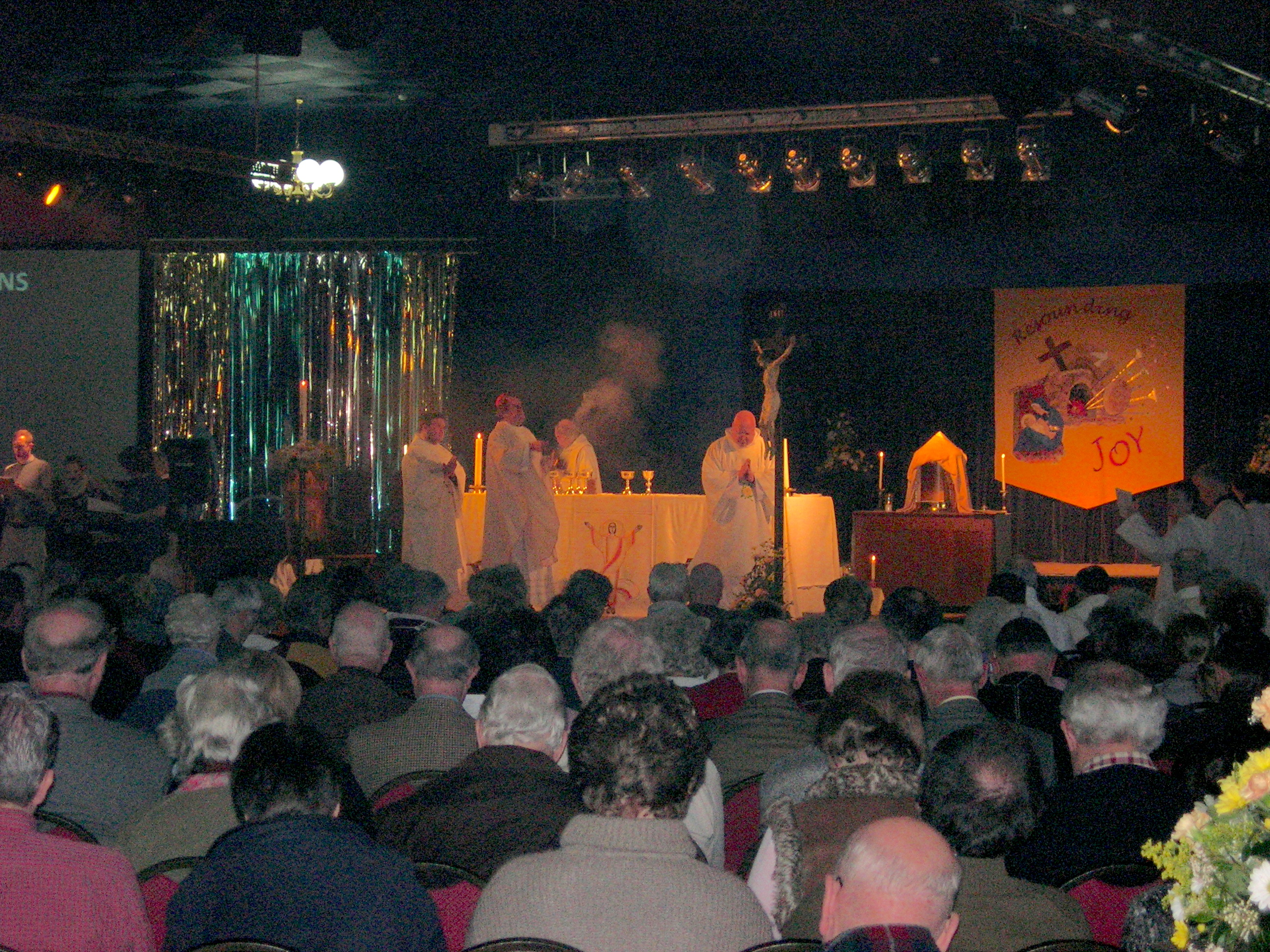 A mass in progress at the final Caister retreat conference (at Pakefield, north Suffolk) in 2008.